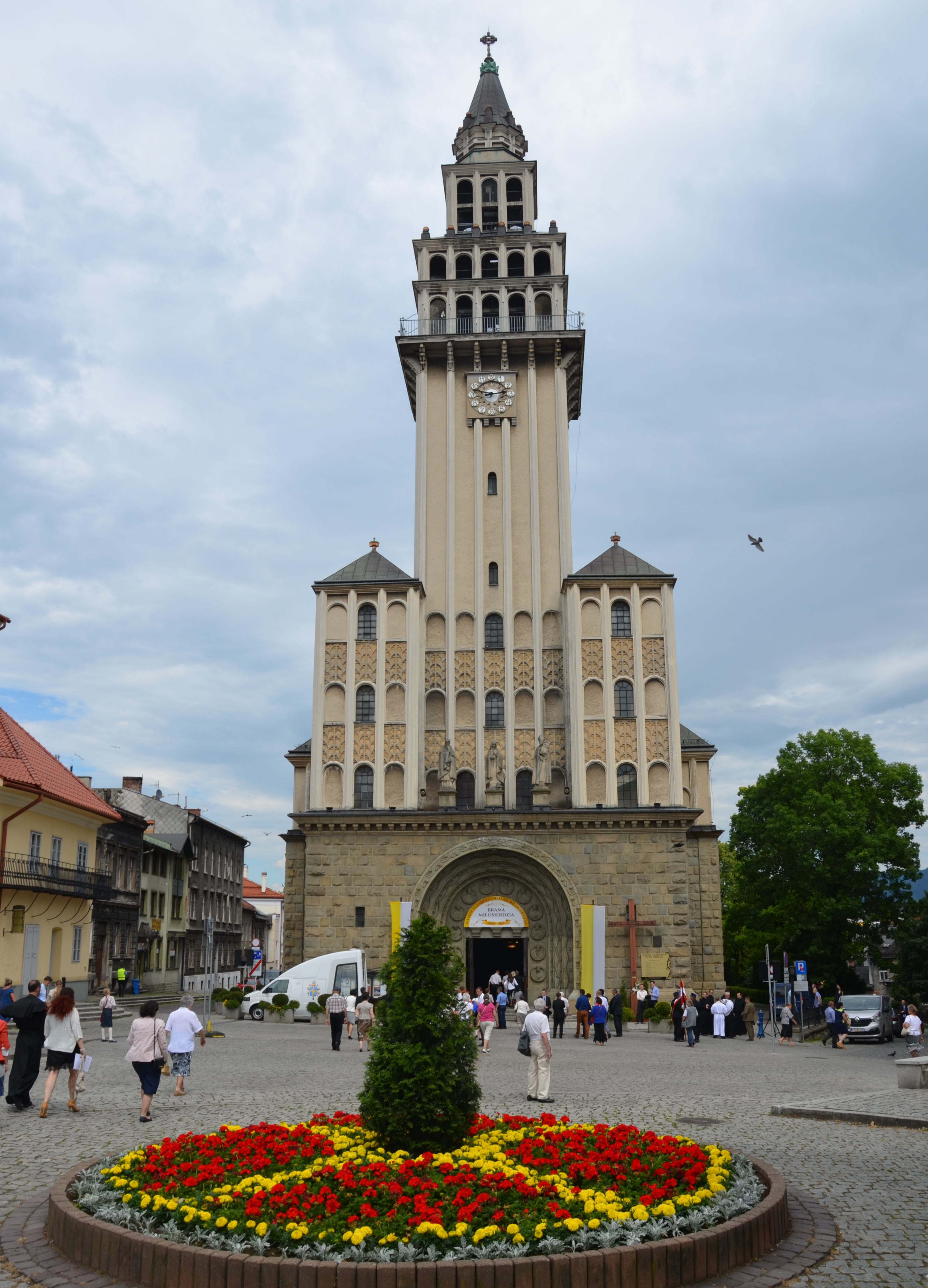 Exterior of St. Nicholas Cathedral in Bielsko-Biała